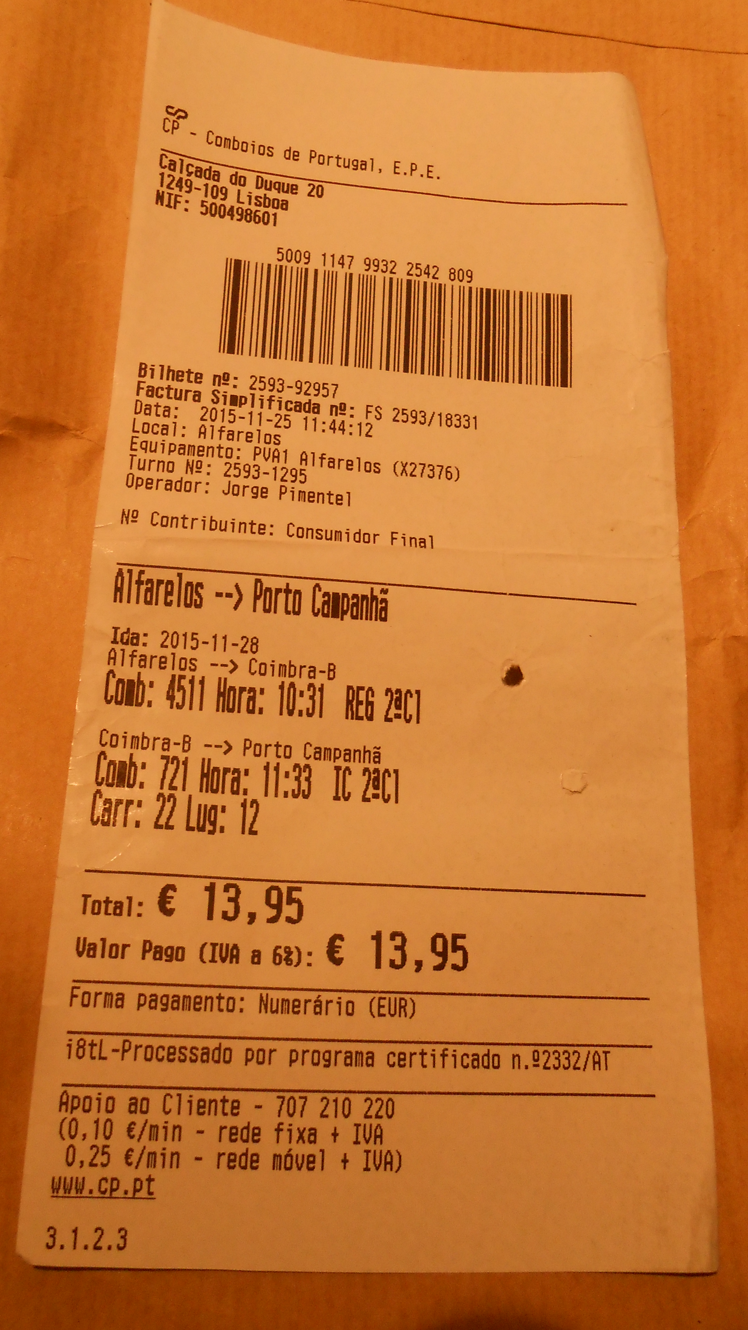 Ticket for the intercity from Alfarelos to Porto Campanhã on the Linha do Norte line, in Portugal.